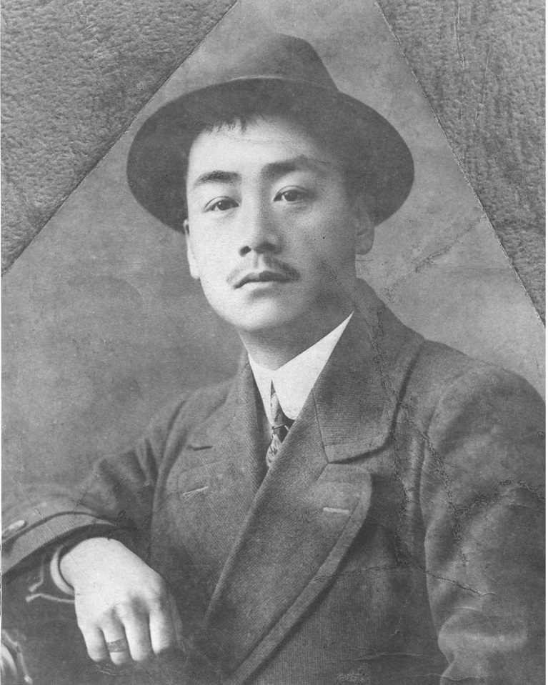 Portrait of Dukjae Kim, independence fighter of Korea